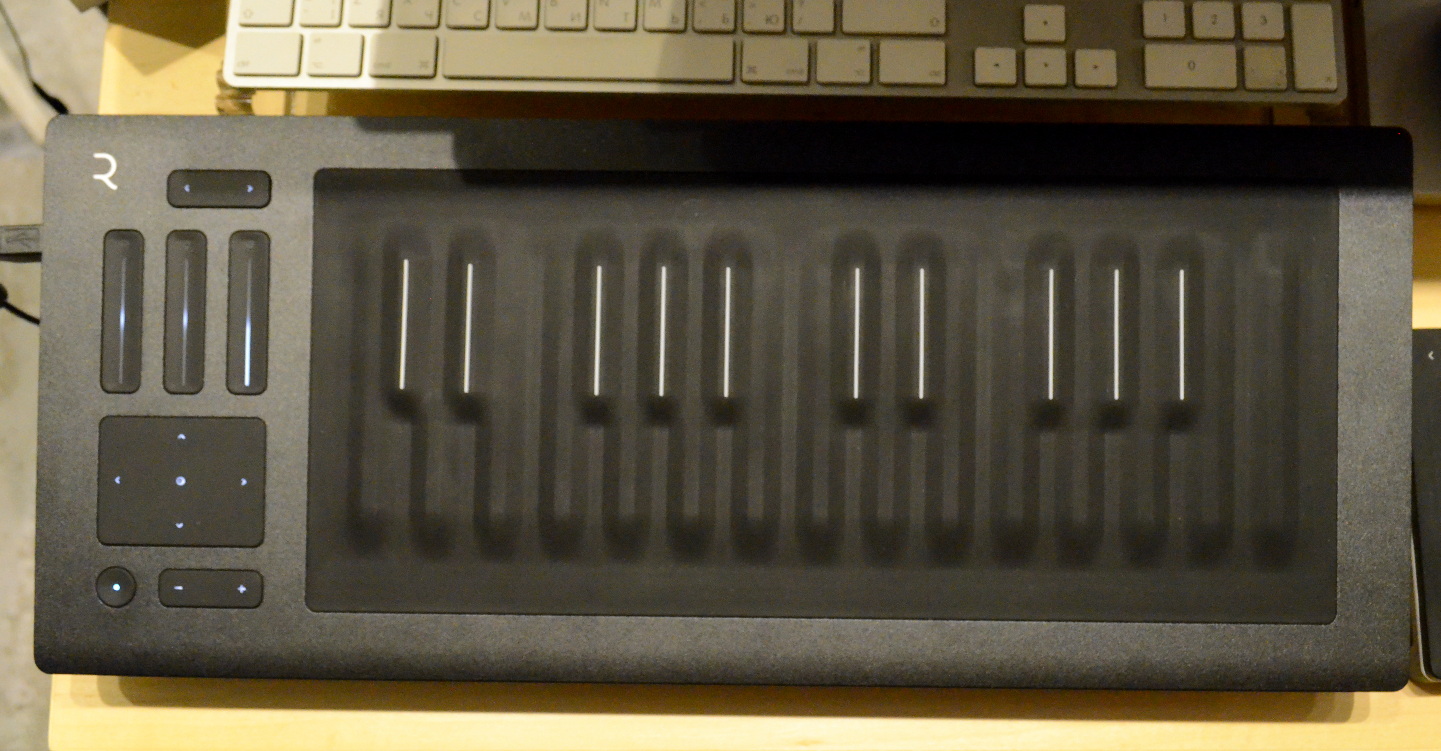 ROLI product: Seaboard RISE 25